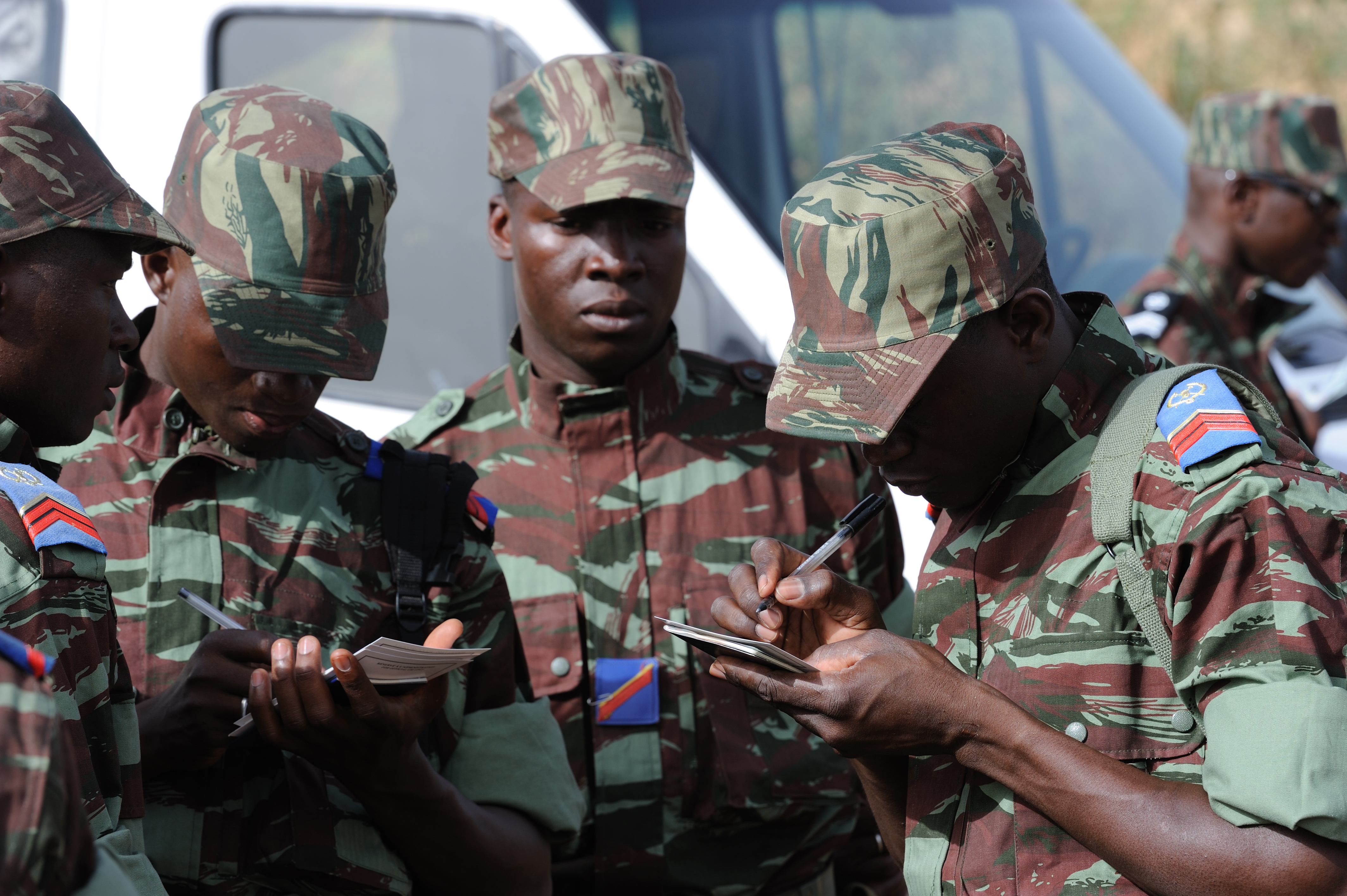 Burkinabe soldiers gather necessary documentation prior to their deployment to Mali in support of exercise Flintlock 10 in Ouagadougou, Burkino Faso, May 1, 2010. About 40 soldiers boarded the C-130J to deploy for counterterrorism training with U.S., Malian and European partners. Flintlock 10 is a special operations forces exercise and is part of a U.S. Africa Command-sponsored annual program with partner nations in Northern and Western Africa. The exercise, which includes several European nations, is conducted by Special Operations Command Africa and is designed to build relationships and develop capacity among security forces throughout the Trans-Saharan region of Africa.